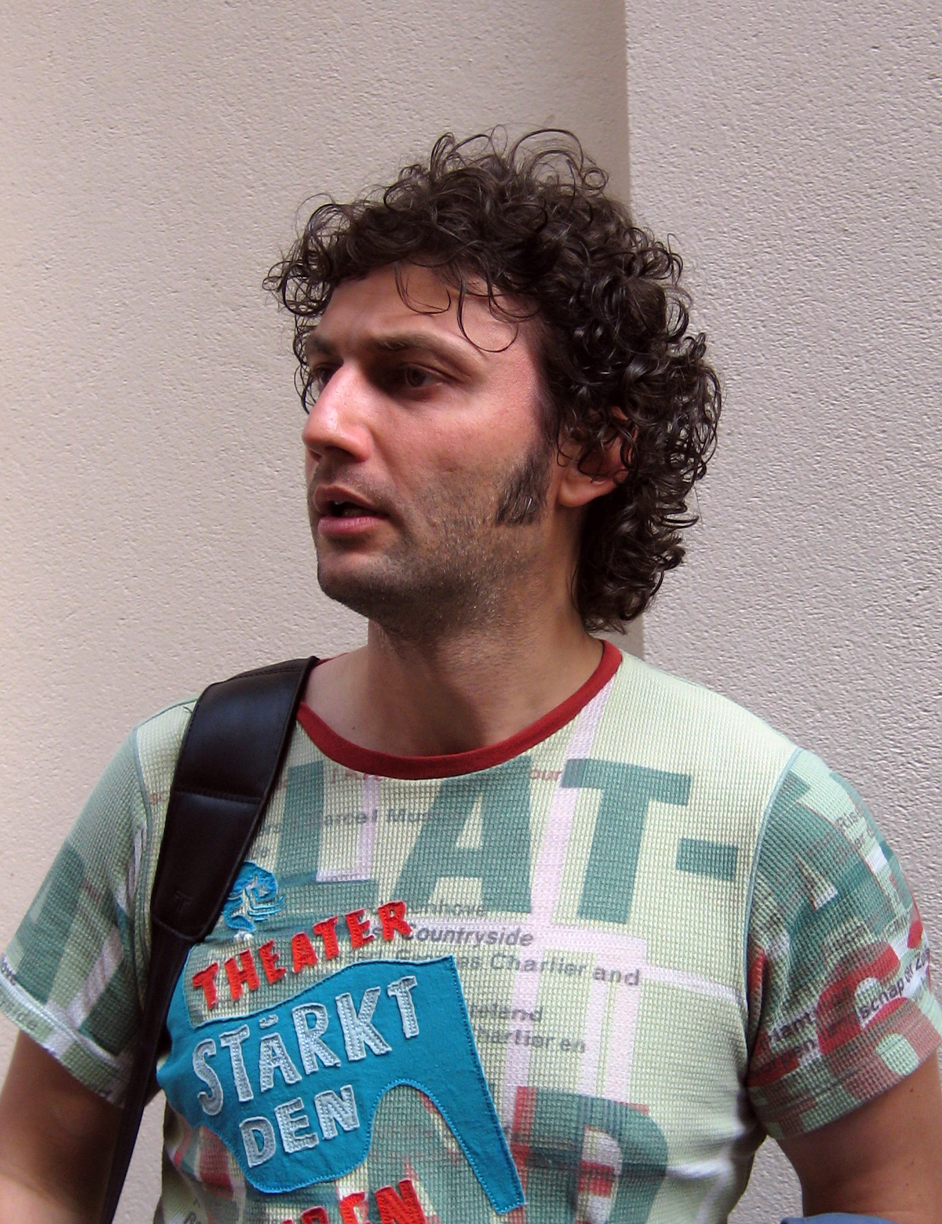 German opera singer Jonas Kaufmann photographed outside the Royal Opera House, London, after the dress rehearsal for Tosca